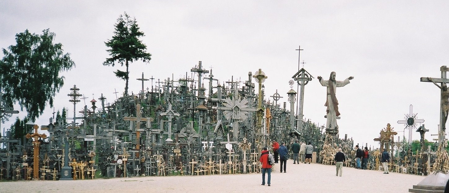 Hill of Crosses, Lithuania